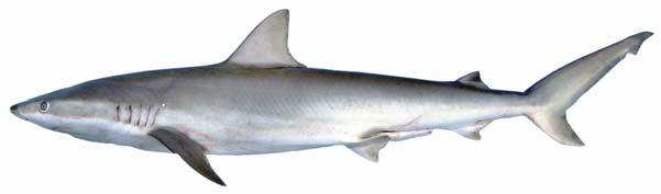 Blacknose shark (Carcharhinus acronotus)